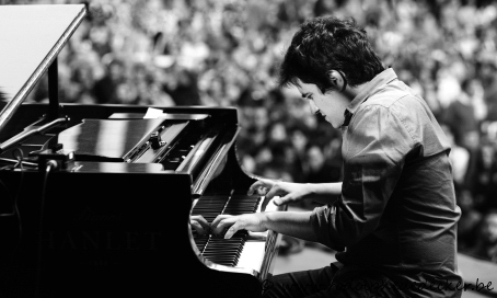 Harold Lopez Nussa at The Brussels Jazz Marathon 2010